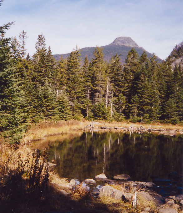 my first hike up camels hump and over Mt Ethan Allen following a few miles of Vermont's Long Trail.